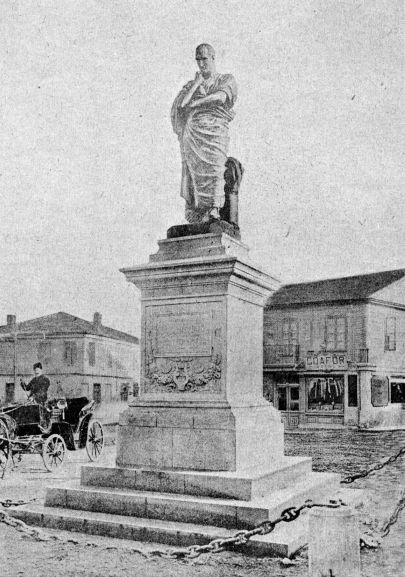 View of the statue of Ovid in Constanța, Romania.